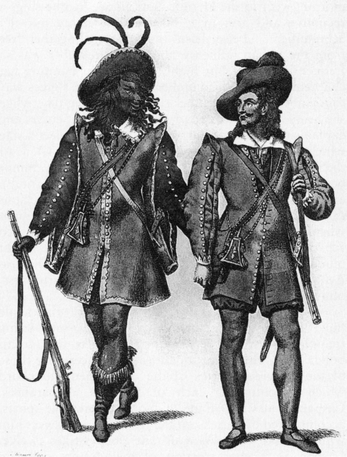 Costume designs by Stürmer for the roles of Samiel and Caspar in the opera Der Freischütz by Carl Maria von Weber, as presented in the original 1821 production at the Schauspielhaus, Berlin